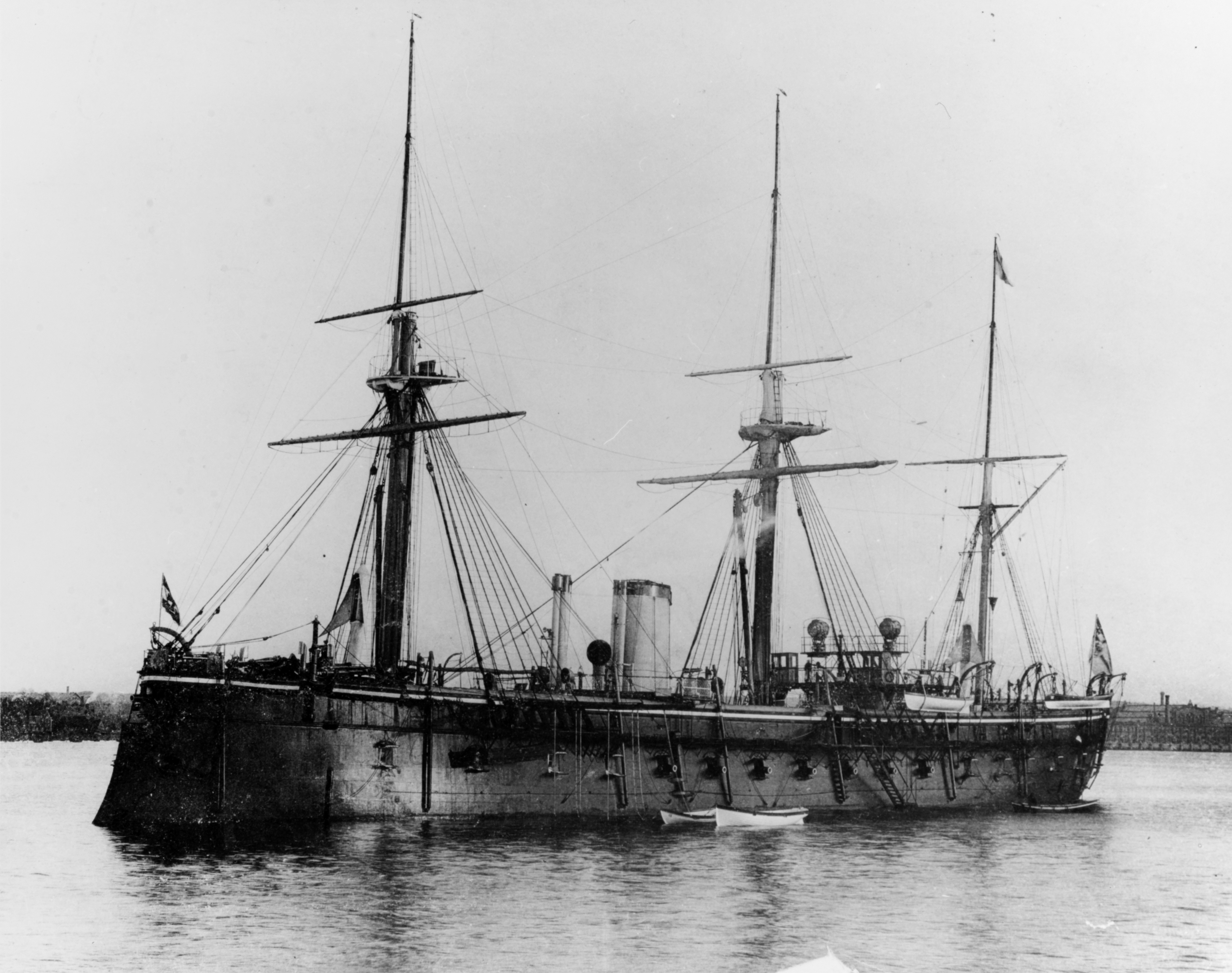 German armored frigate SMS Friedrich Carl. The ship is known to have been fitted with anti-torpedo nets in 1885 and to have been disarmed in 1895, placing the photo in that 10-year time span. The ship served as a torpedo trials and training ship from 1892 to 1905.